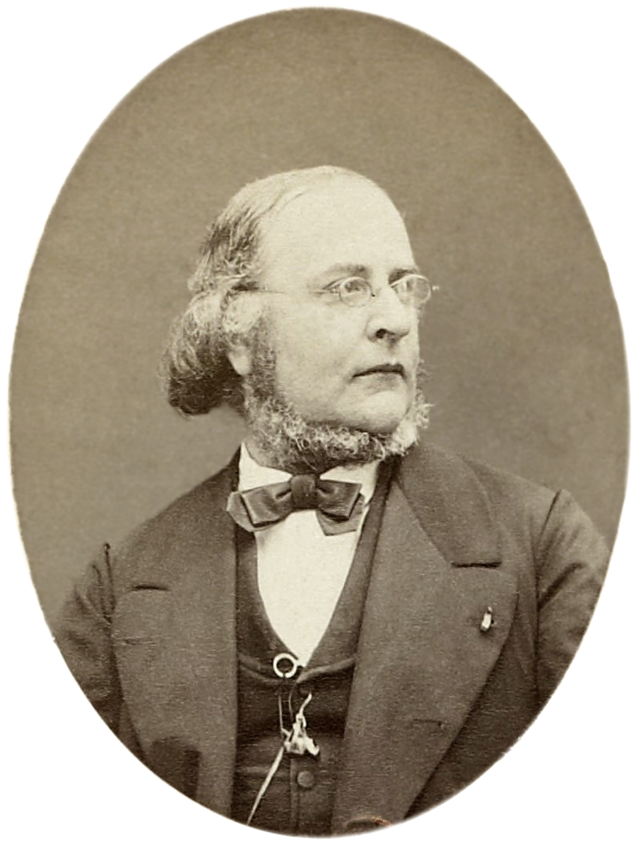 Athanase Coquerel (the younger) (1820 - 1875), french calvinist theologian and writer.